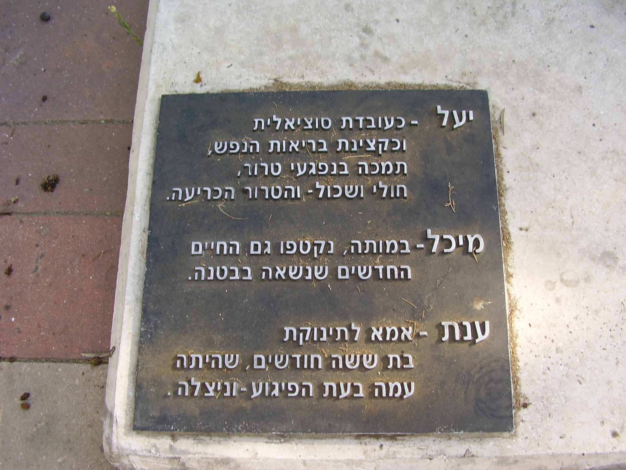 Memorial to the victims of the terror attack in cafe apropo in Tel Aviv